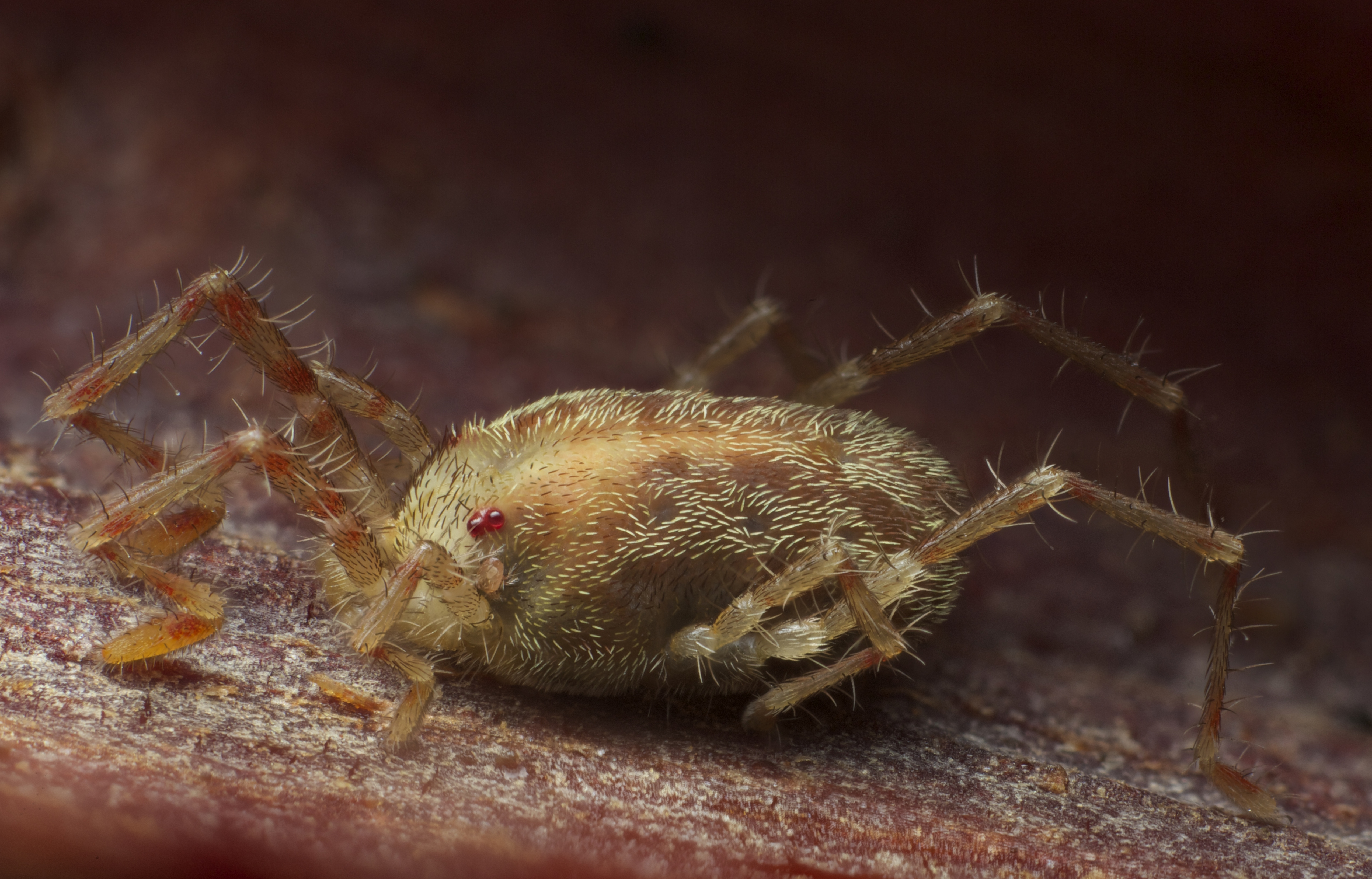 Original description on Flickr: A very cool mite! Parasitengona, prob. Erythaeidae sp. Edit. The photo was sent to Owen Seeman, a Tasmanian mite expert and apart from supplying the rough ID, he also pointed out that the other, tiny mite is actually a mite larva, quite possibly, and funnily enough, the larval form of the same species. This is because the larvae of this group, including Trombiculidae, or 'chigger' mites prey on insects and arachnids. So now you know. Unbelievably, this is a mite, just over 1.5mm big, and I've never seen anything like it before! This was found out on a millipede and springtail hunt the other day near Table mountain in Tasmania with a lovely bloke called Bob Mesibov, Tasmania's millipede expert. He found it, actually. And my god, he knows his leaf litter species. Fabulous. A fauna and flora encyclopedia on legs. He found a new millipede species that day too. This is a 15 photo stack, and really worth looking at in Large, ( click on Download/All sizes) to see the detail and shoddy stacking, as it was moving its legs... There's a smaller mite attached below the eye, which is kind of cool. (...)